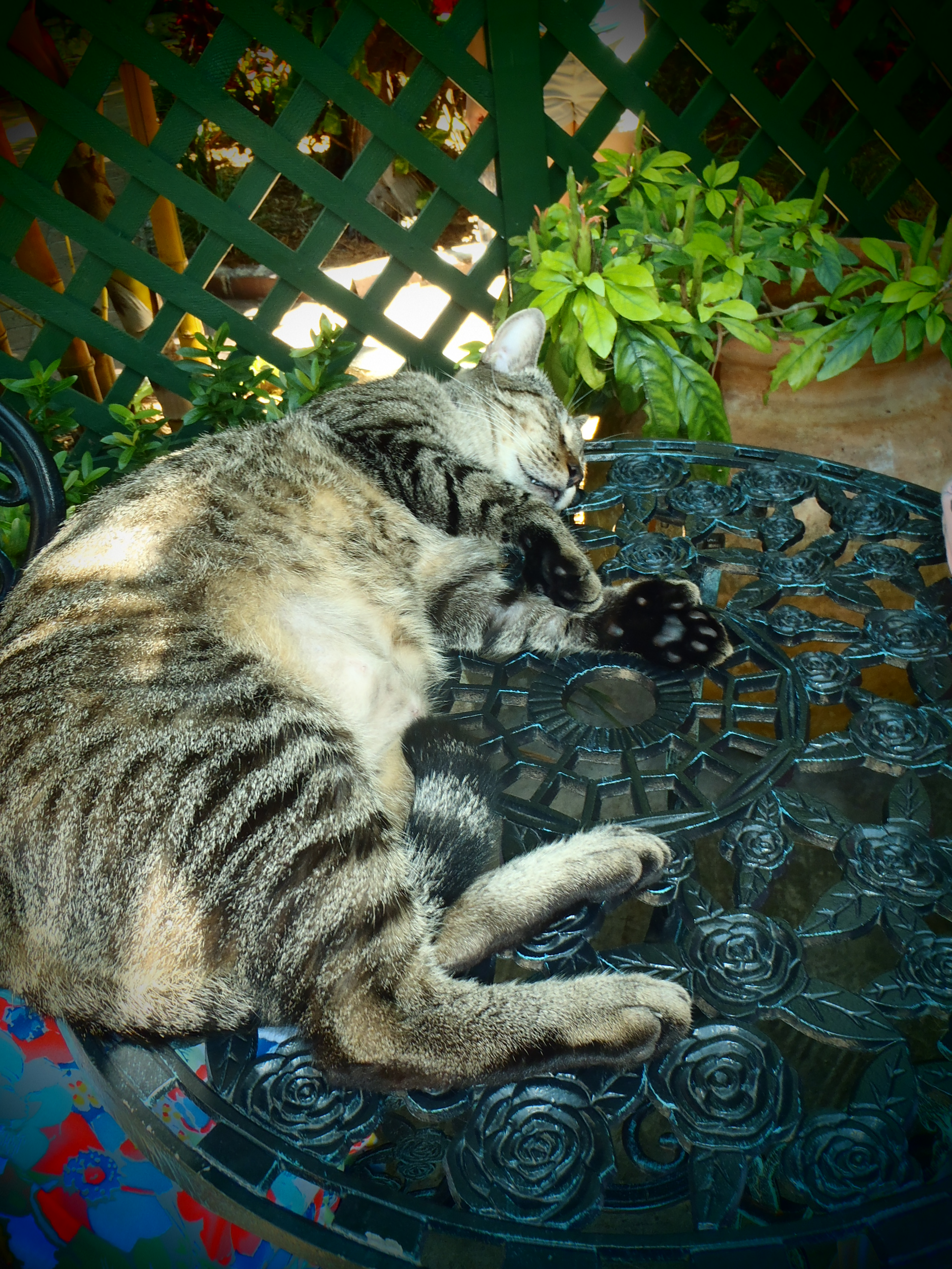 Ernest Hemingway House, 907 Whitehead Street Key West